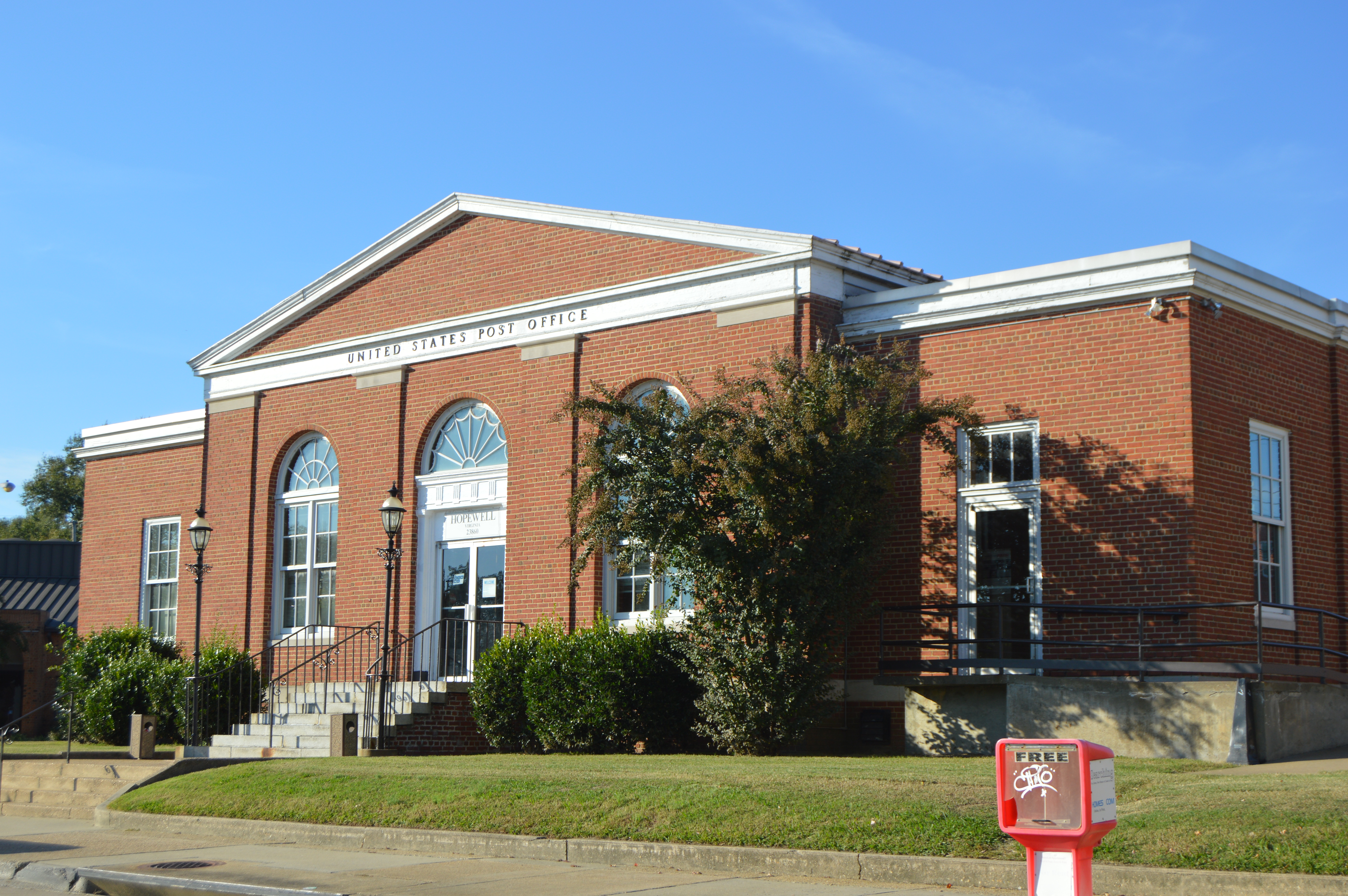 Front of the Hopewell post office, located at 117 W. Poythress Street in Hopewell, Virginia, United States. Built in 1935, it is part of the Downtown Hopewell Historic District, a historic district that is listed on the National Register of Historic Places.